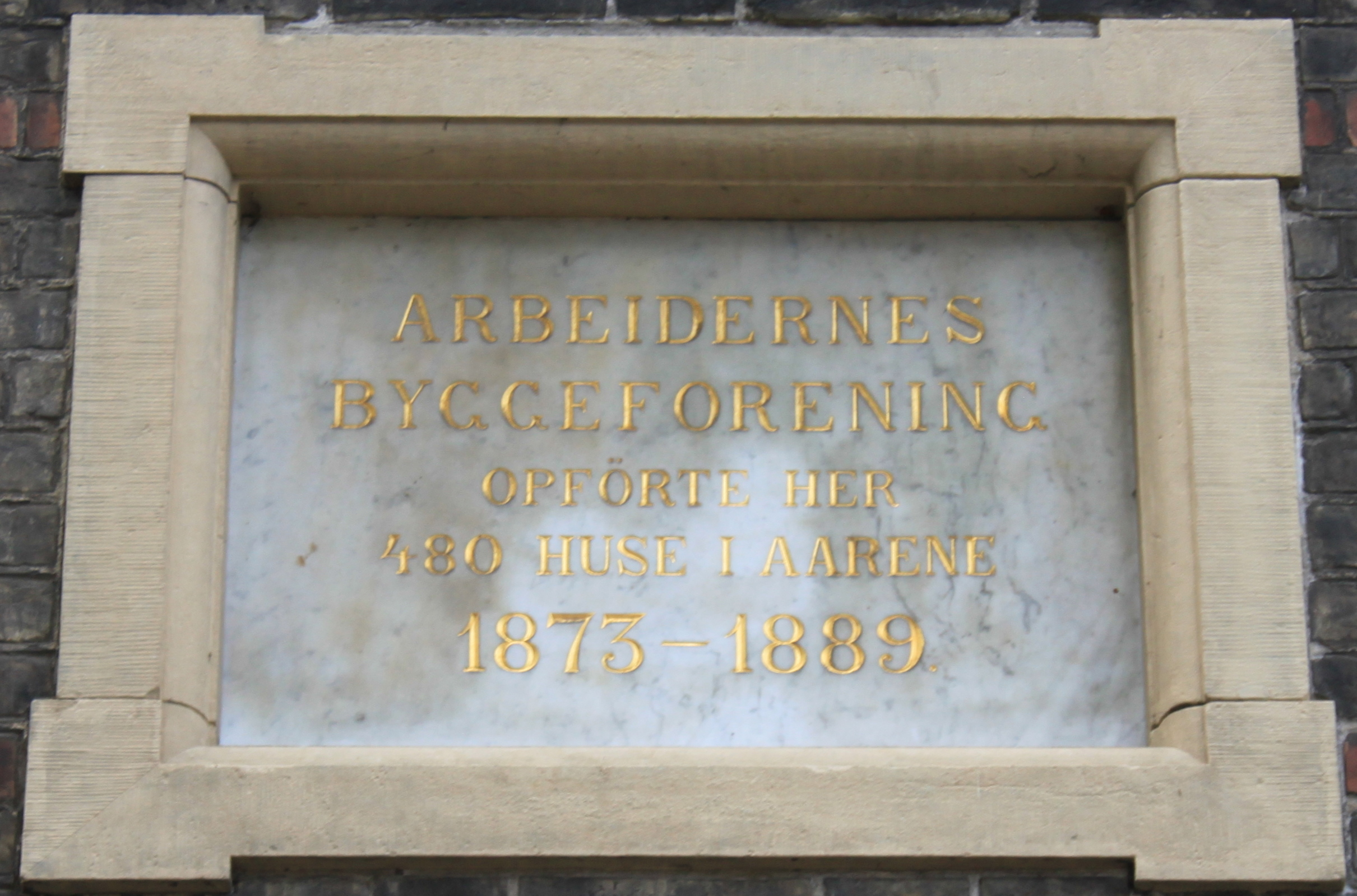 Kartoffelrækkerne in Copenhagen